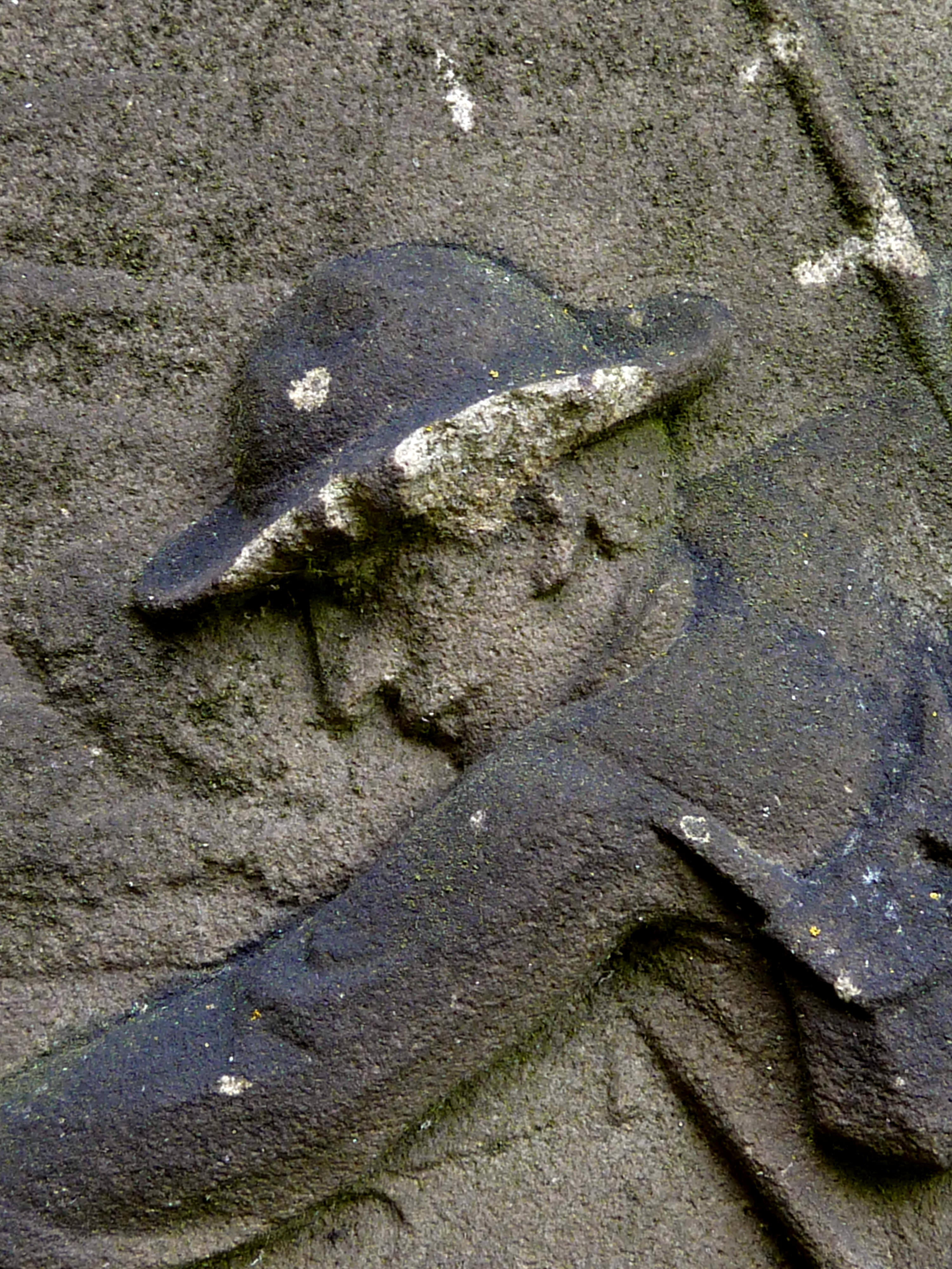 Showing the Angler's Tomb, or the gravestone of William Taylor (1793-1873), carved by his son Matthew Taylor. William was buried on the right hand side of the chapel in Woodhouse Cemetery, Leeds, West Yorkshire, but the gravestone has now been removed to the left hand side. The kingfisher once on top of the monument is missing. The gravestone was named "Angler's Tomb" by Rev. W.T. Adey in 1905, in response to the images carved upon it. Showing detail from bas relief roundel carving of fishing scene: self-portrait of Matthew Taylor.